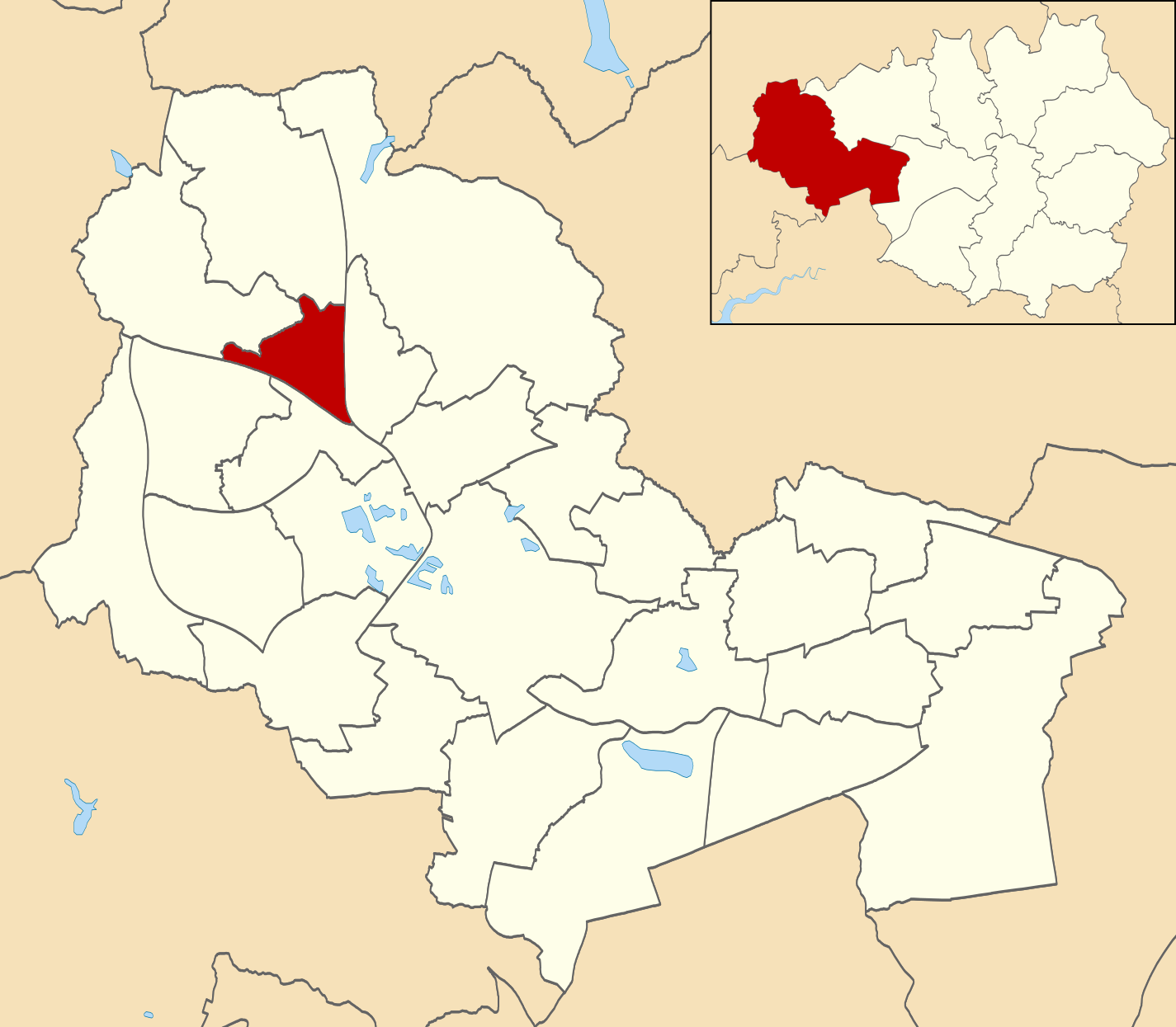 Map showing the location of Wigan West ward within Wigan Metropolitan Borough Council